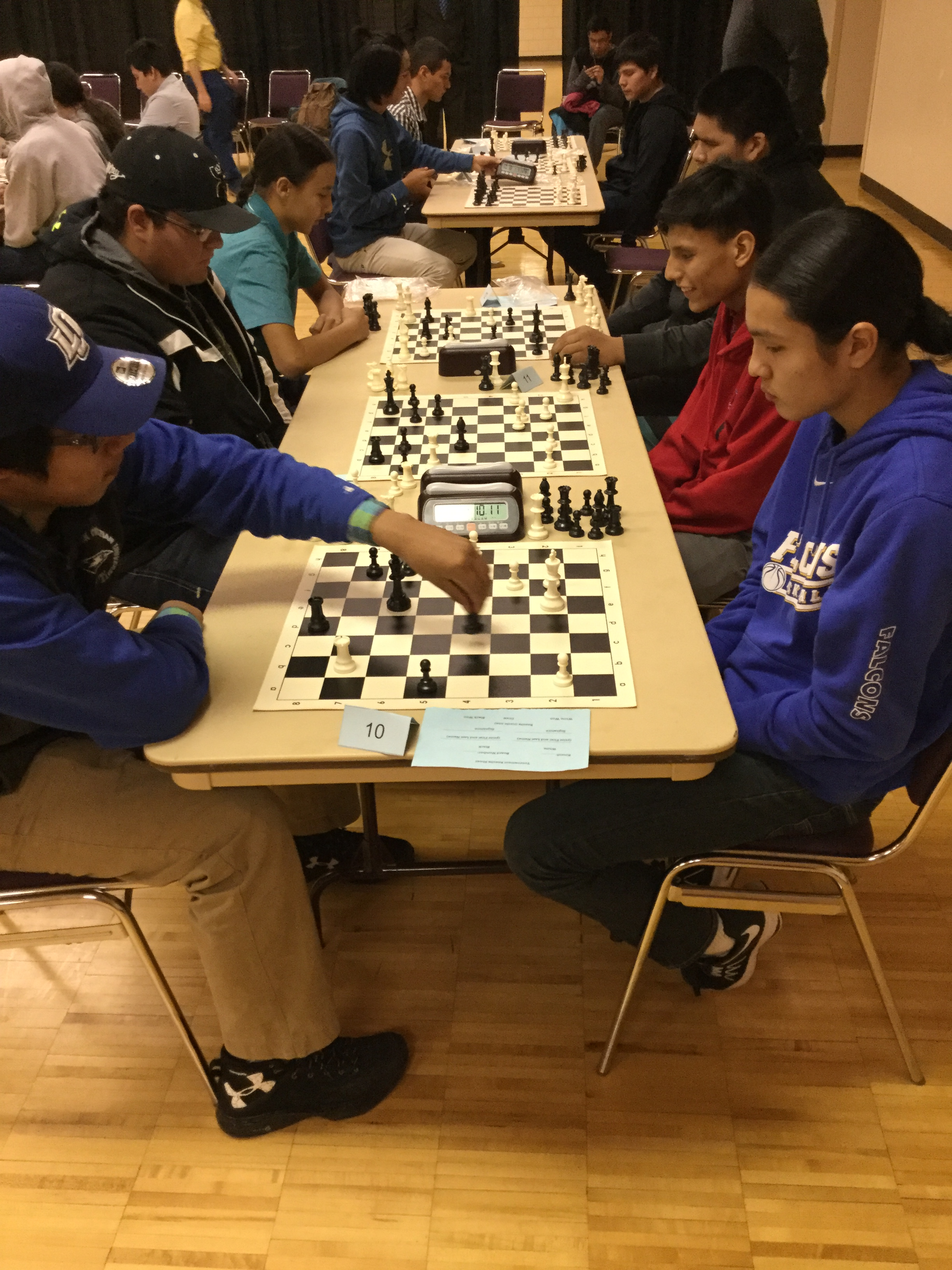 Lakota Nation Invitational Chess Tournament held 12/14/16. Tournament held in the Rushmore Plaza Civic Center in Rapid City, South Dakota.